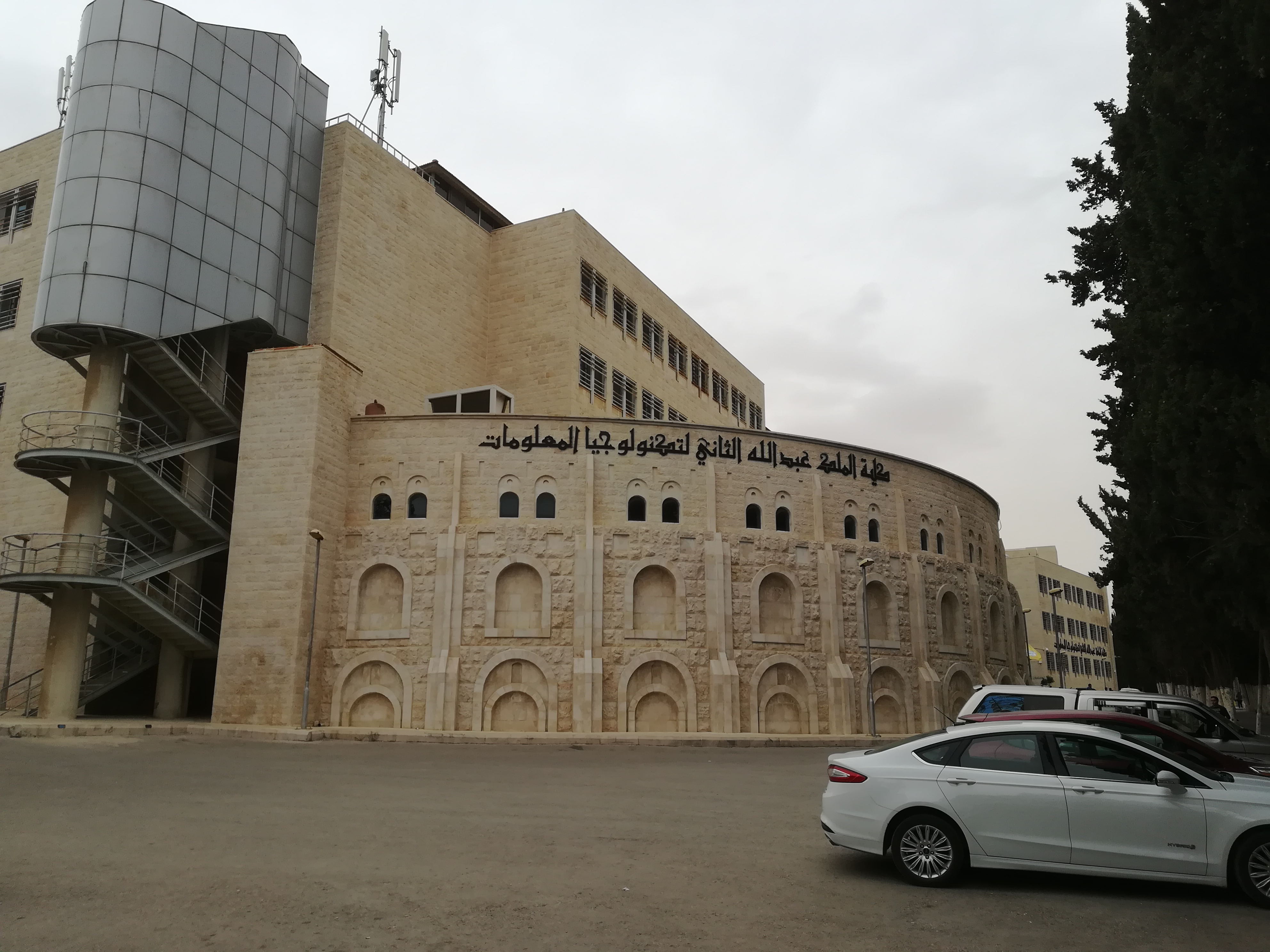 King Abdullah II College of Information Technology (IT) in the university